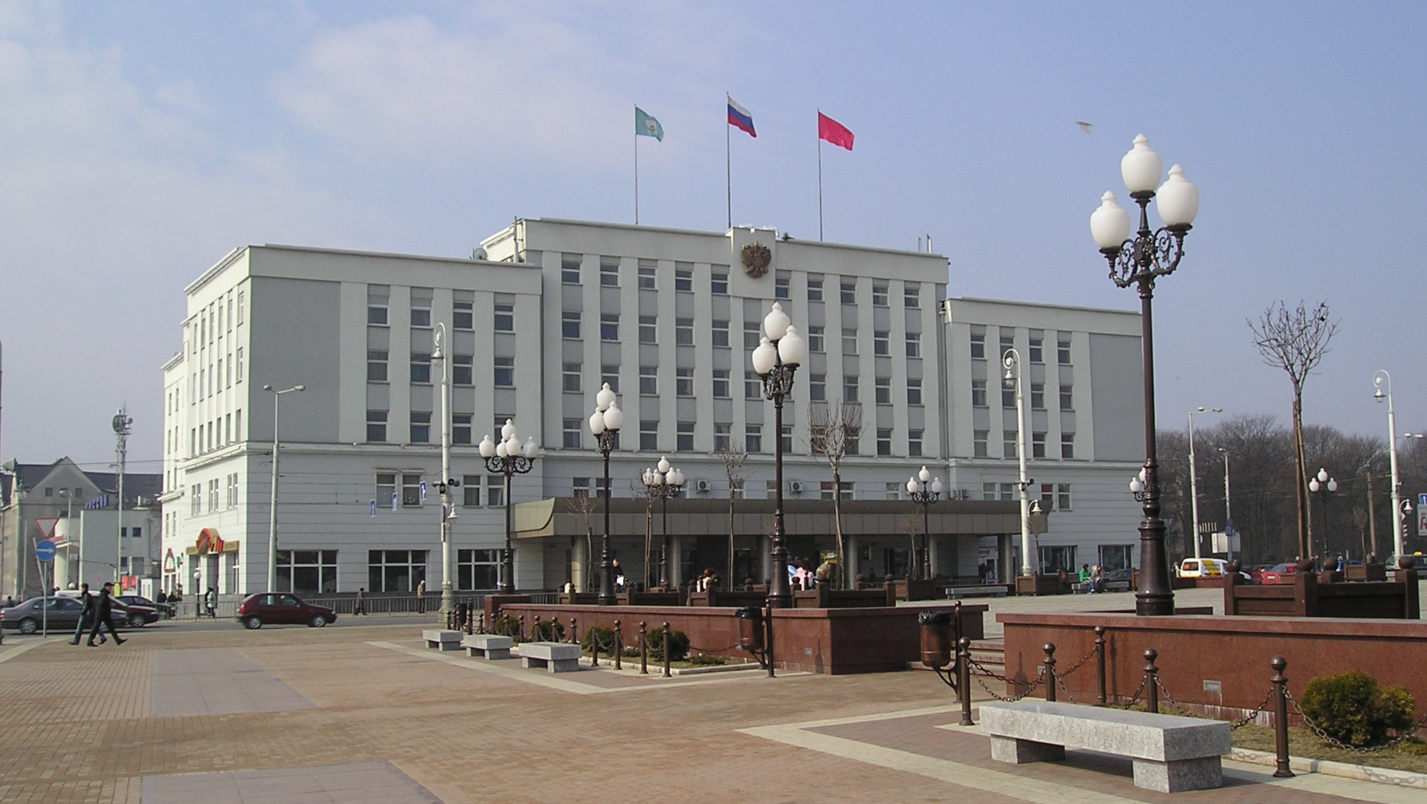 Kaliningrad City Hall, situated in Victory Square in the city of Kaliningrad.